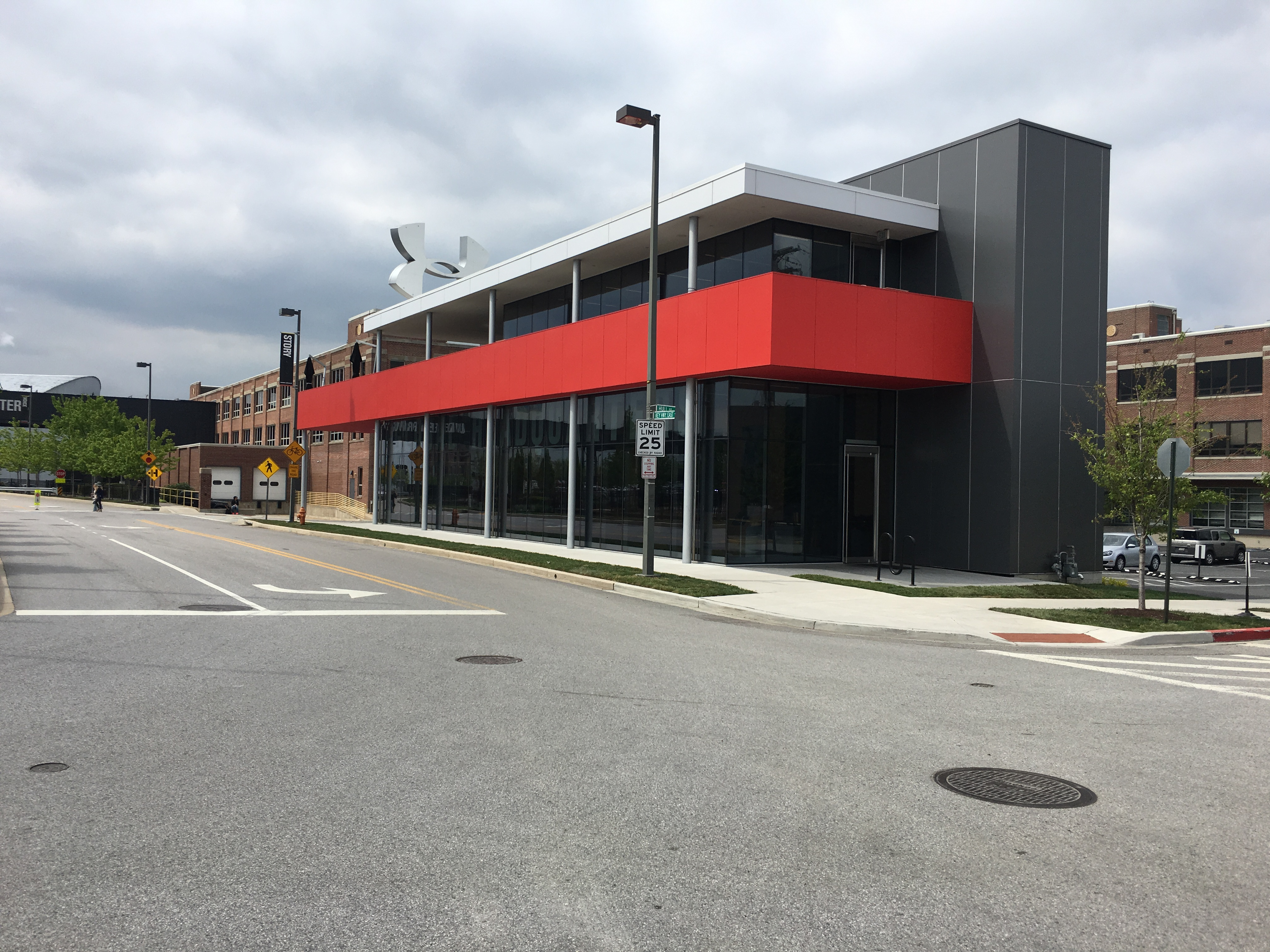 Buildings at the Under Armour headquarters in Baltimore, Maryland